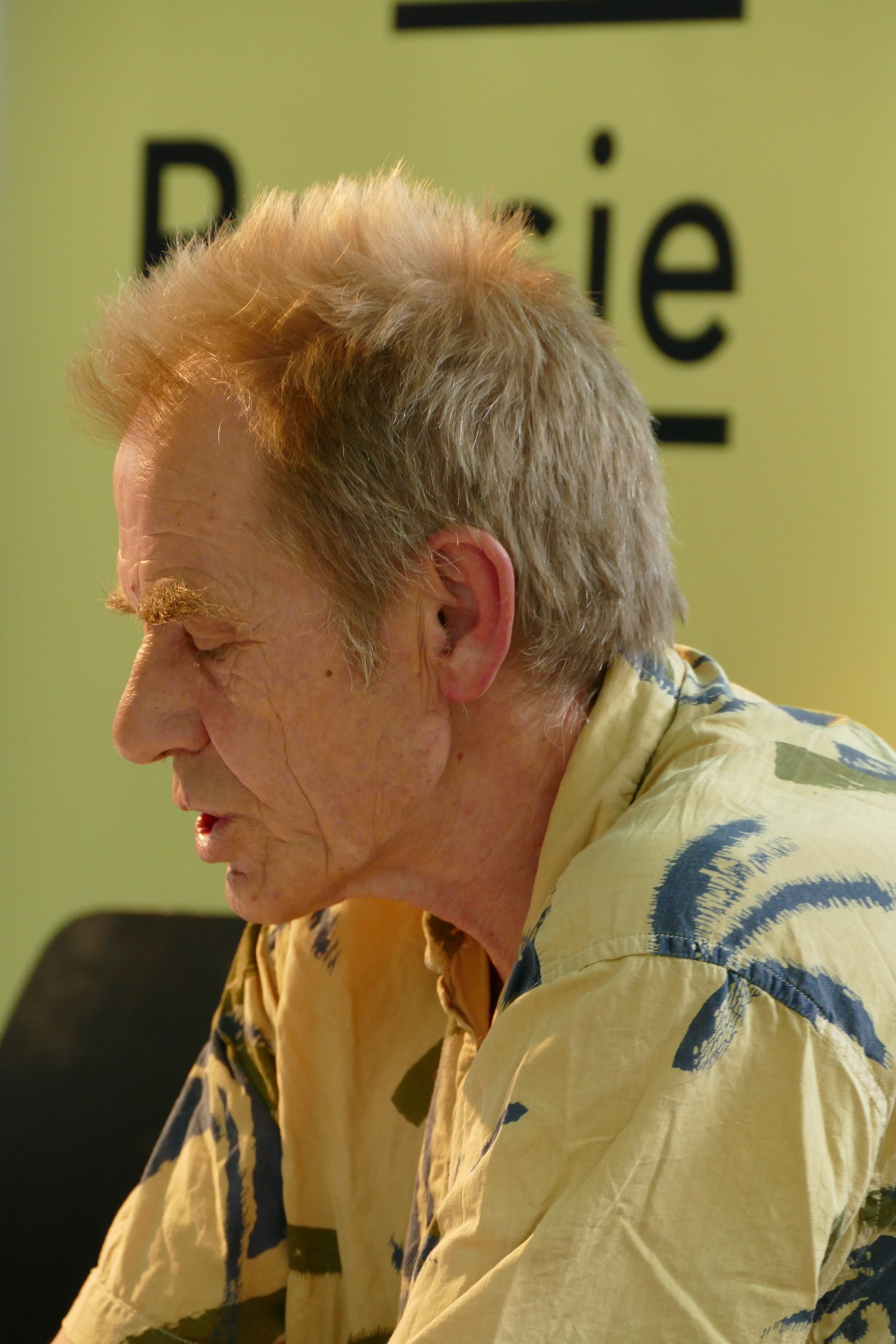 Peter Engstler at the Poesiefestival Berlin